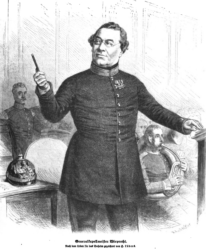 Wilhelm Wieprecht, German composer and conductor. "Daheim" magazine, 1868.